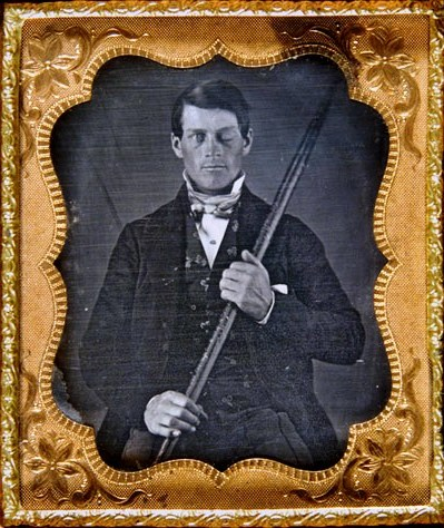 Photograph of cased-daguerreotype studio portrait of brain-injury survivor Phineas P. Gage (1823–1860) shown holding the tamping iron which injured him. Includes view of original embossed brass mat. Color, unretouched. From the collection of Jack and Beverly Wilgus. Like most daguerreotypes, the image seen in this artifact is laterally (left-right) reversed; therefore a second, compensating reversal has been applied to produce this image, so as to show Gage as he appeared in life. That this shows Gage correctly is confirmed by contemporaneous medical reports describing his injuries, as well as from the injuries visible in Gage's skull and life mask, still preserved.